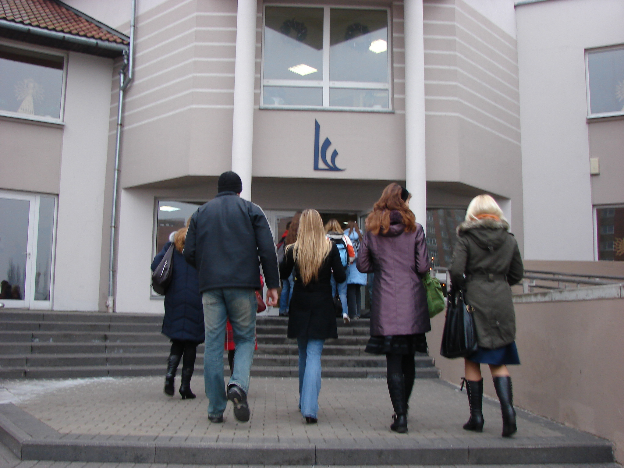 LCC International University.